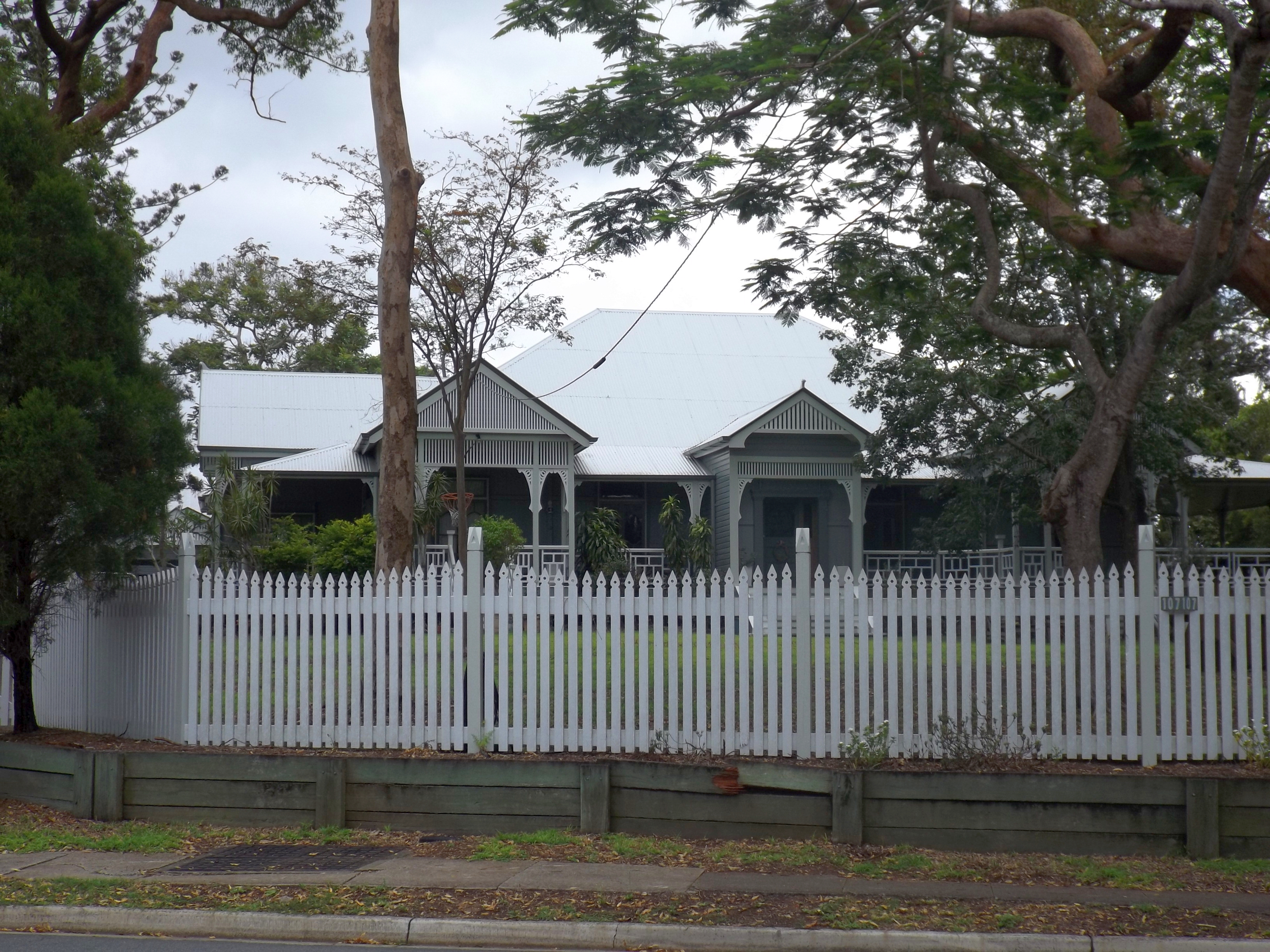 Photo of John Mills' residence at Yeronga, Brisbane, Queensland, Australia